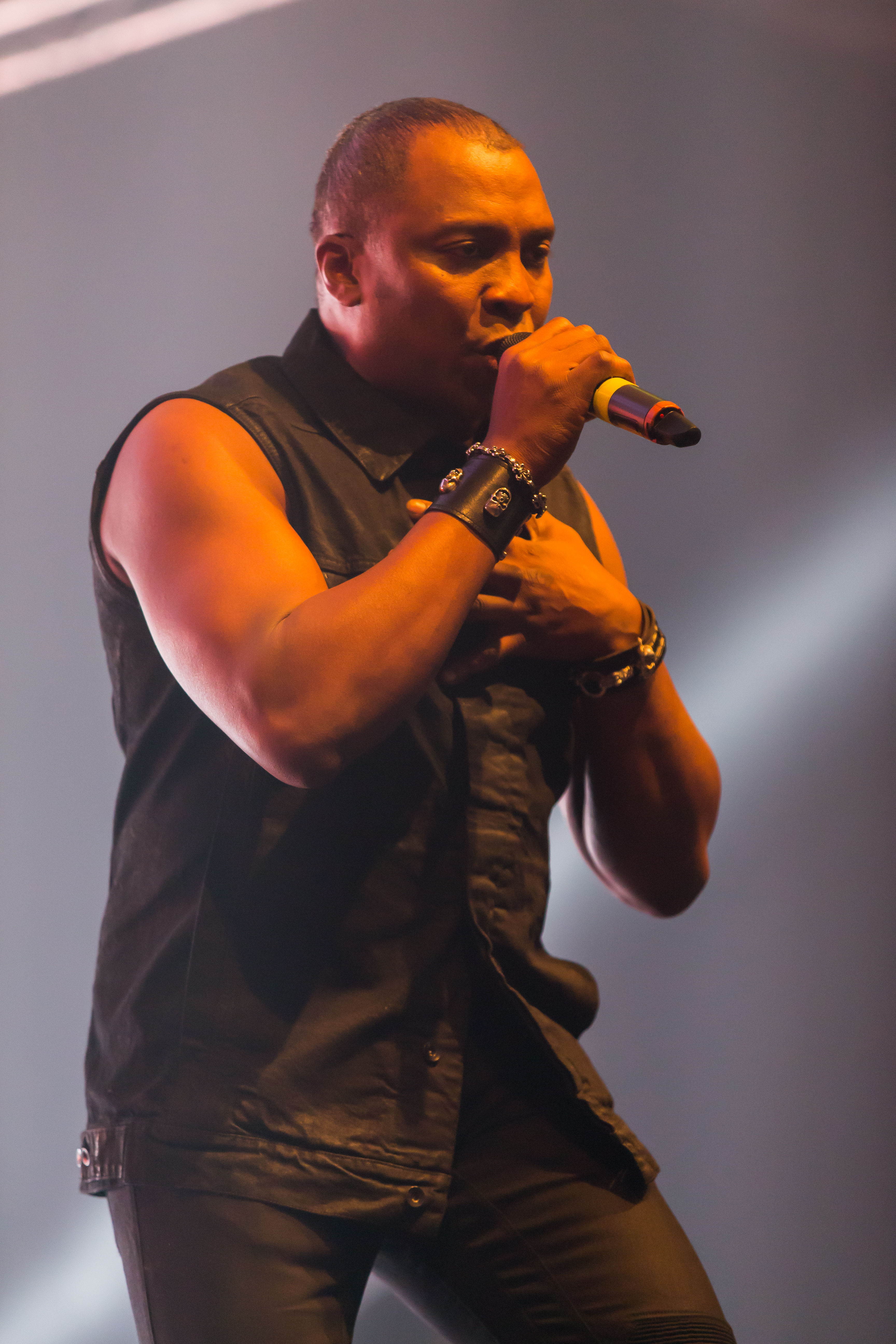 sunshine live "Die 90er - Live On Stage" Maimarkthalle Mannheim DJ Falk, Magic Affair, Captain Hollywood Project, Haddaway, Masterboy, 2 Unlimited, Marusha, Charly Lownoise